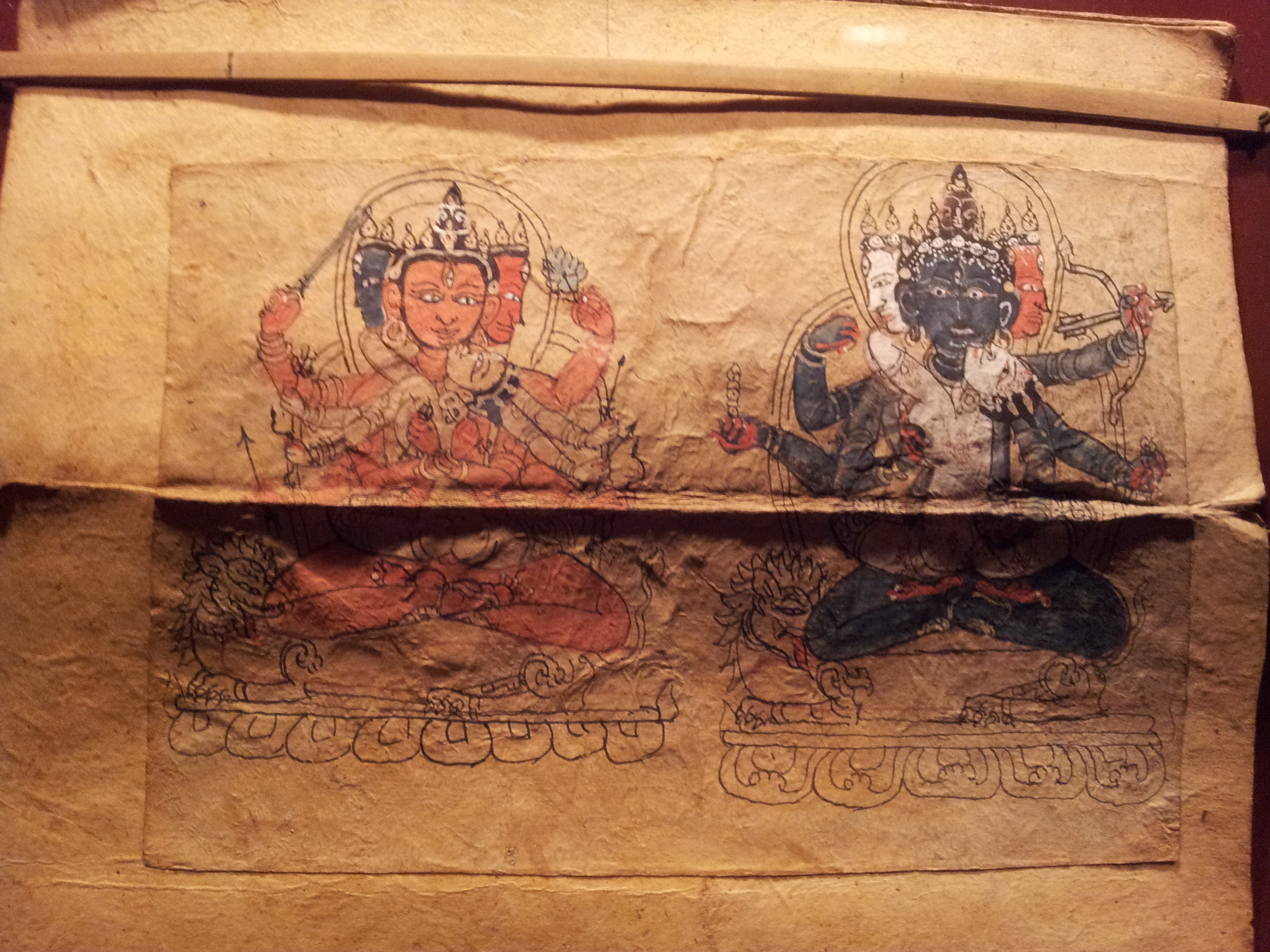 An illustration from a Tantric text in Patan museum showing a mystic union.